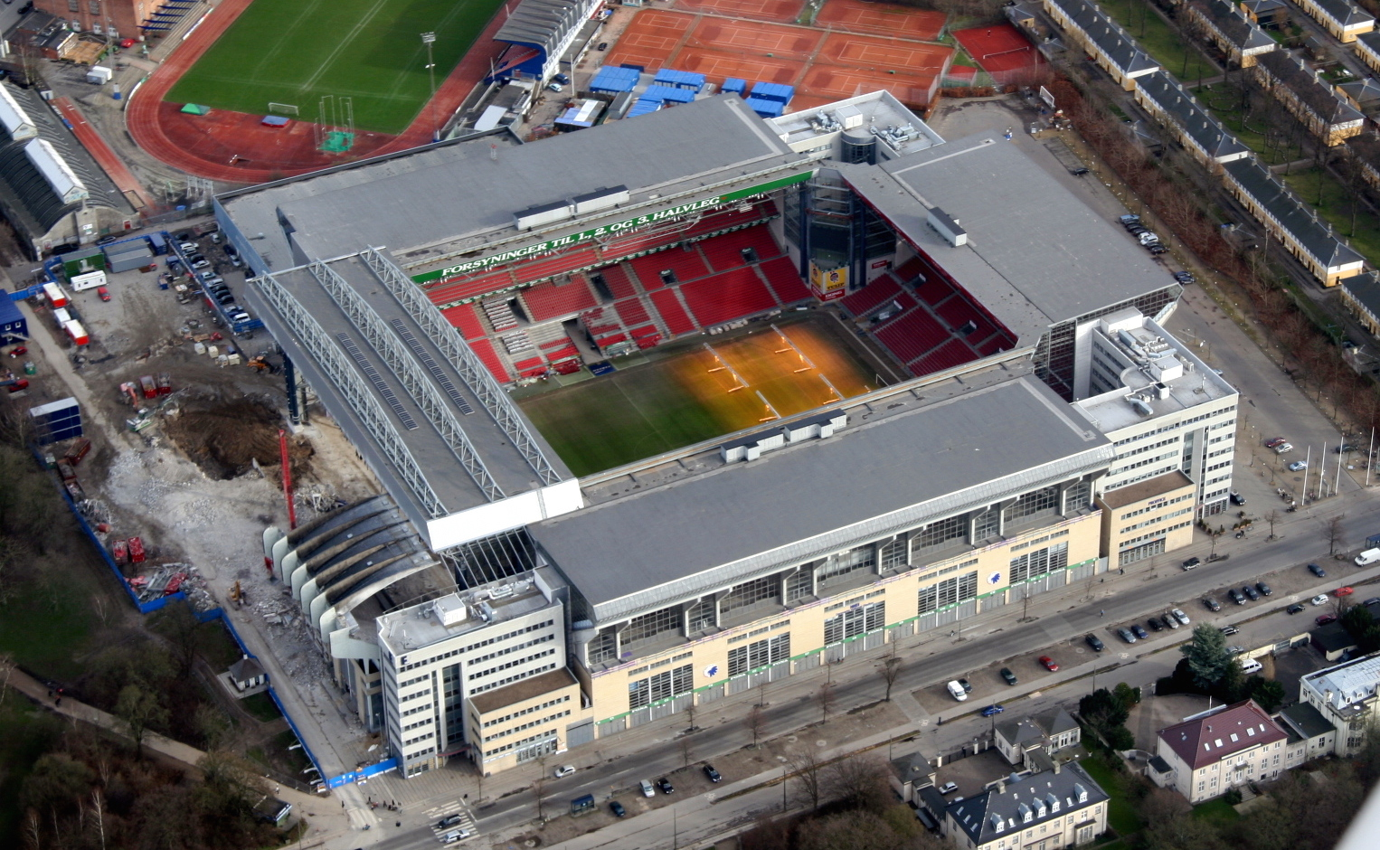 Parken Stadium, Copenhagen, Denmark